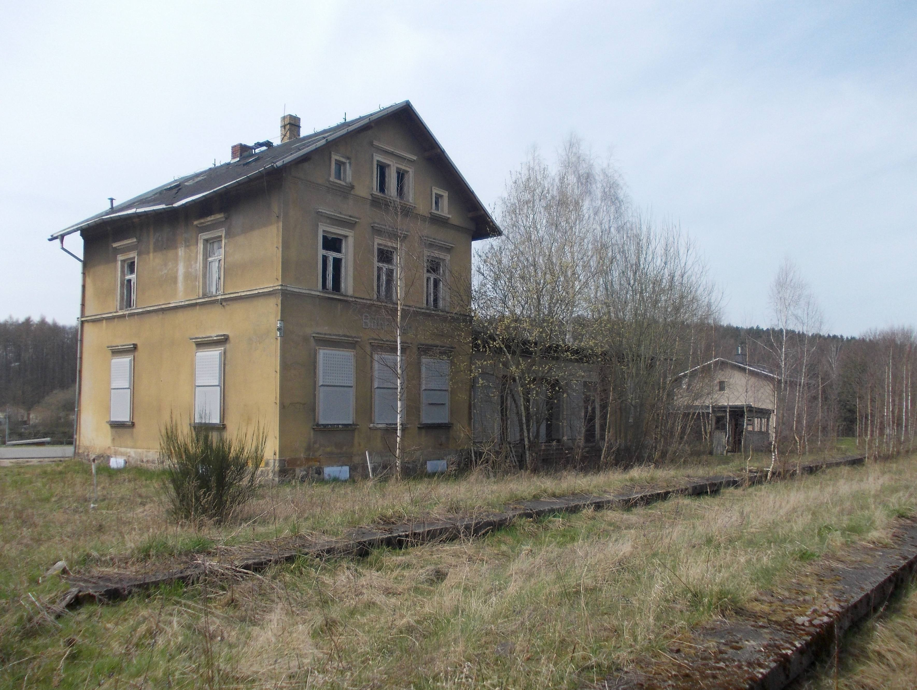 Former Böhrigen train station (Striegistal, Mittelsachsen district, Saxony)